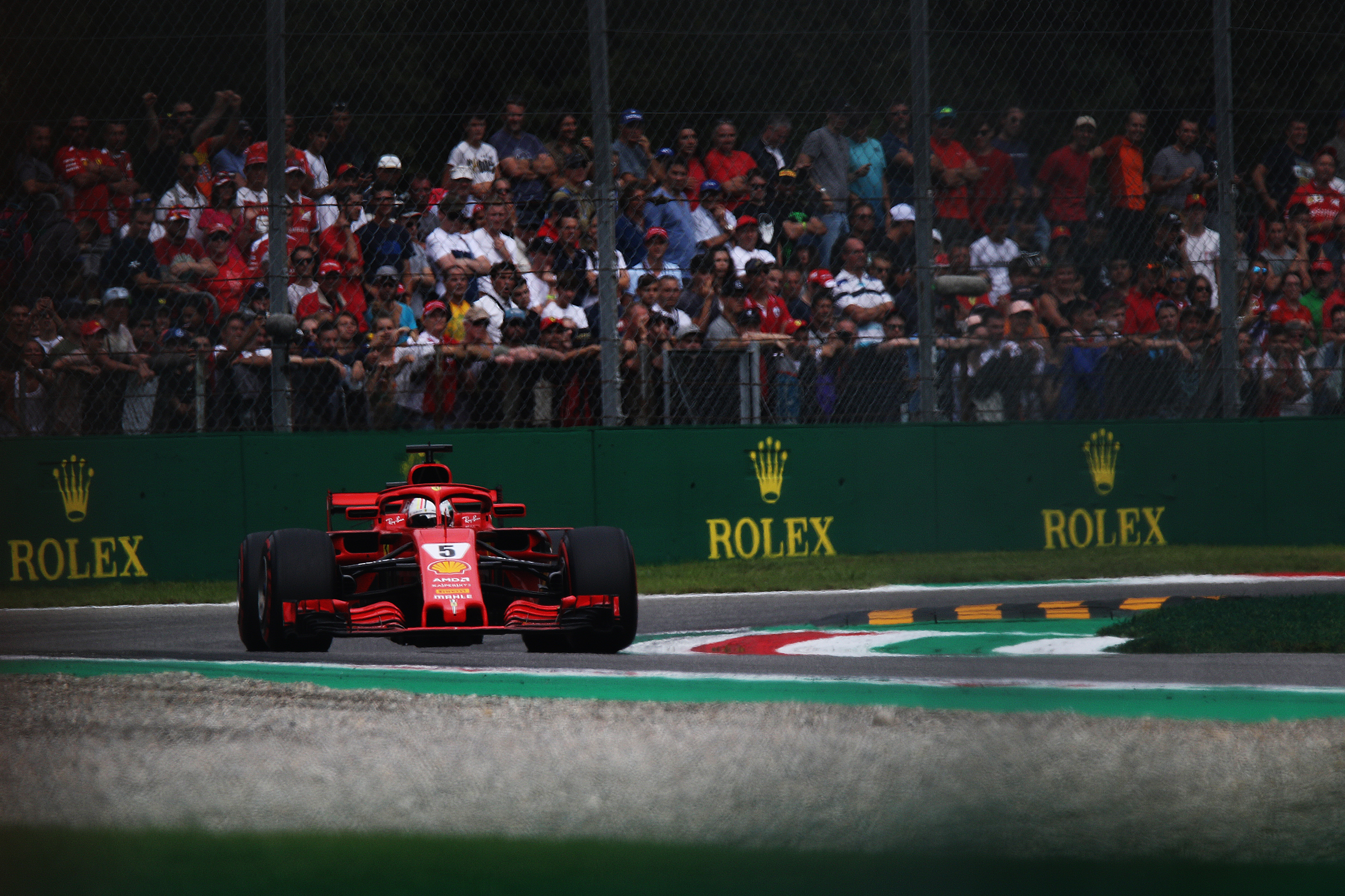 2018 Italian Grand Prix.